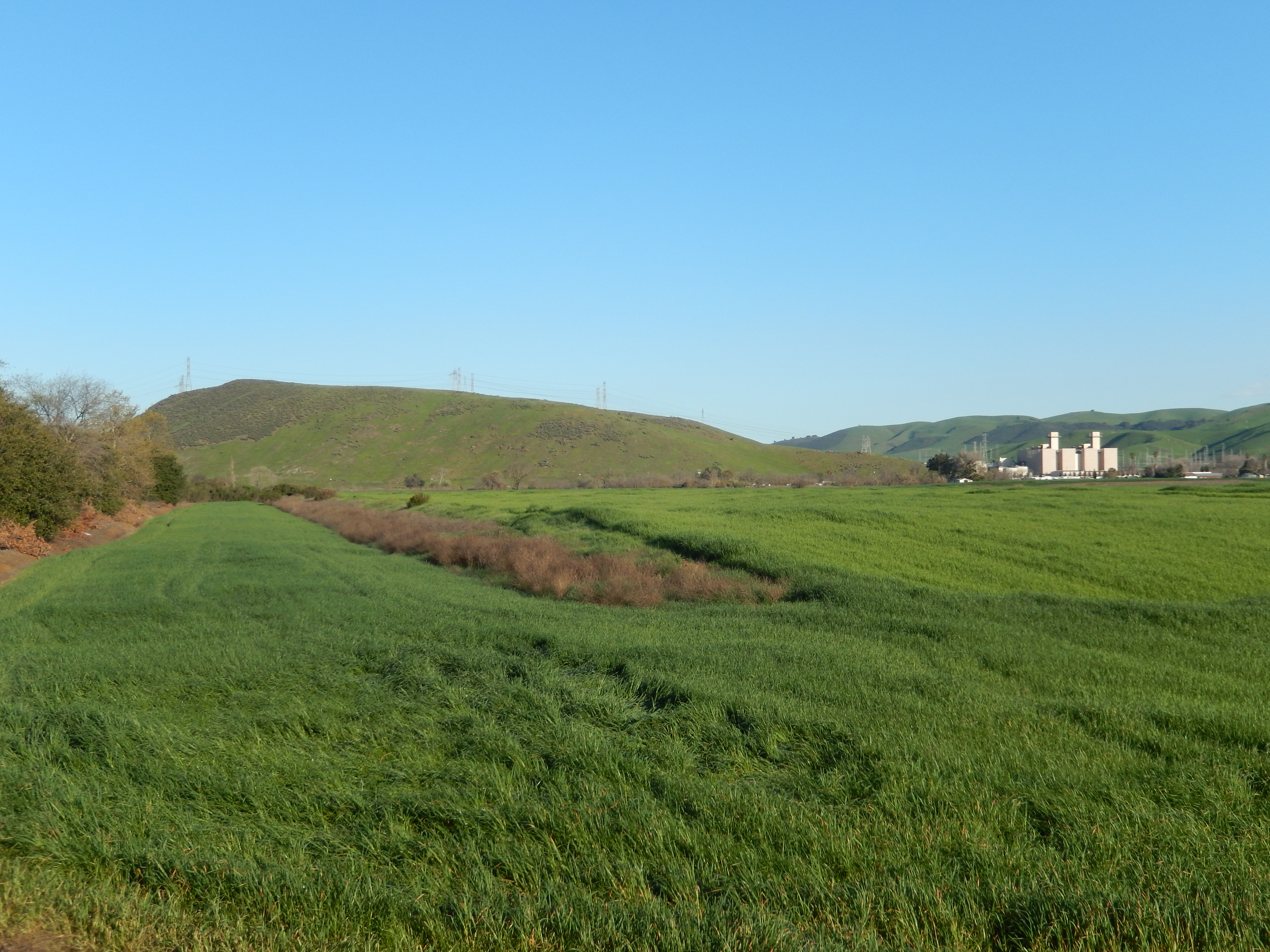 View of Tulare Hill, adjacent to Metcalf Energy Center in San Jose, California, USA.